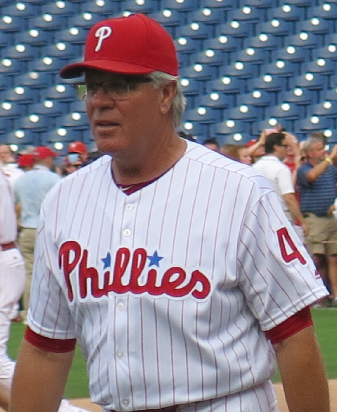 Pete Mackanin of the Philadelphia Phillies, July 16, 2016.